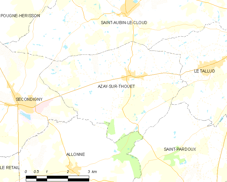 Map of French municipality Azay-sur-Thouet